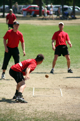 Pärk players at Stångaspelen 2006, Stånga, Gotland,Sweden.